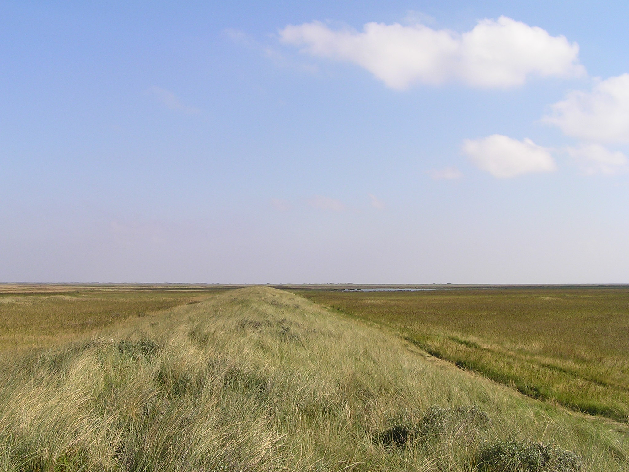 Boschplaat nature reserve on Terschelling, the Netherlands.